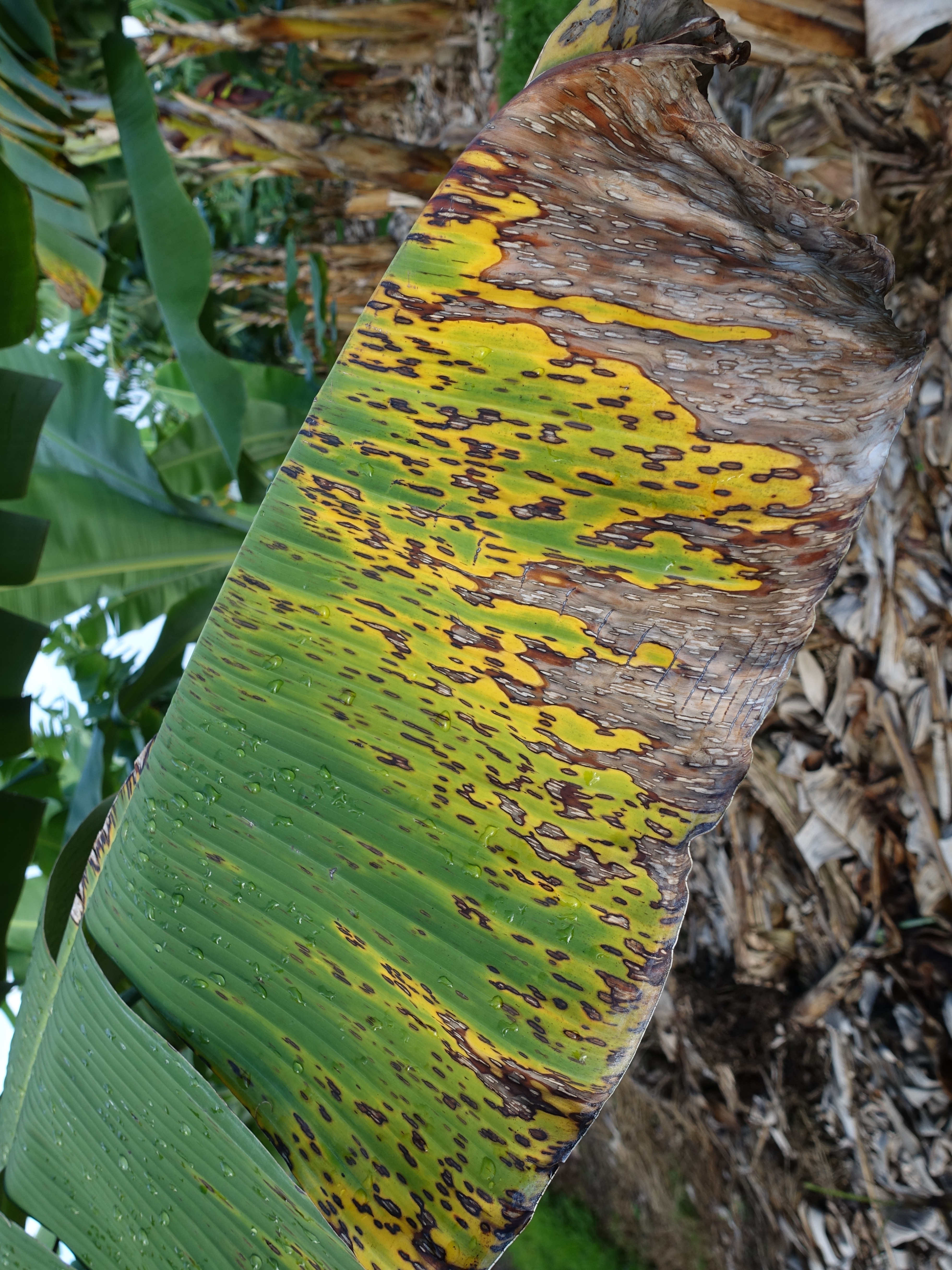 Black Sigatoka macroscopic view of lesions. This is the severe stage of the disease. Banana: Black leaf streak (Black sigatoka) Pathogen: Mycosphaerella fijiensis (fungus) Read